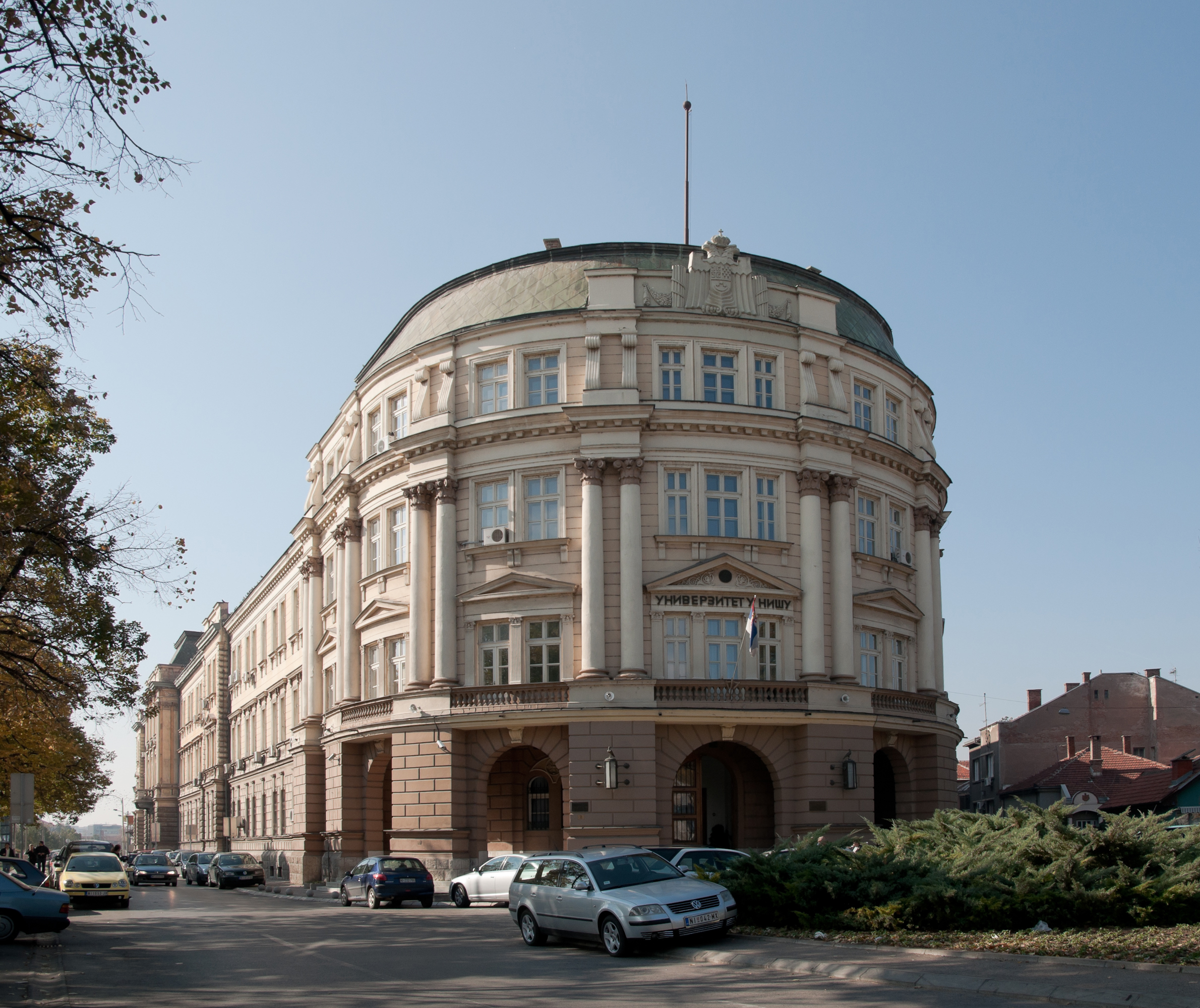 The University in the city of Niš, Serbia.